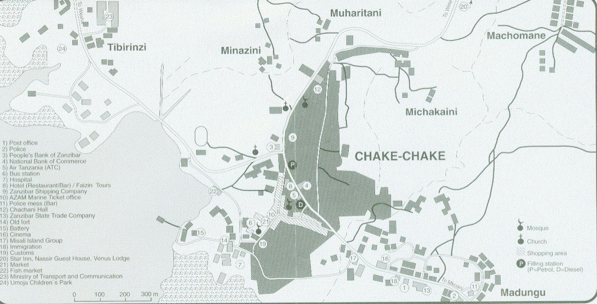 City map of Chake-Chake (Pemba).